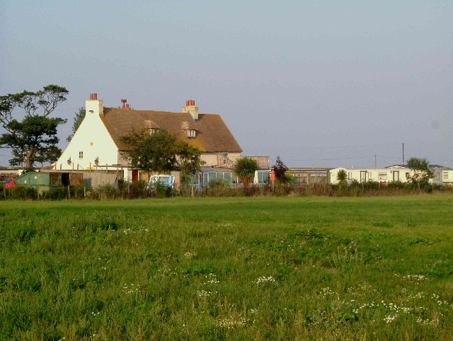 Muswell Manor This caravan site is the scene of the original home of the Royal Aero Club. On the flying field here in 1909 J.T.C Moore-Brabazon made the first flight in a heavier than air machine by a Briton in Britain, the aircraft unfortunately was French this initial flight was 500 yards. It is also the site of the worlds first ever aircraft production line constructing Wright Fliers under licence (the facility was soon moved to Eastchurch). for more information.